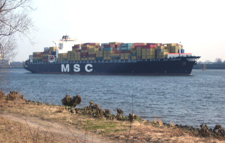 Container ship MSC Loretta coming from Hamburg, down river Elbe